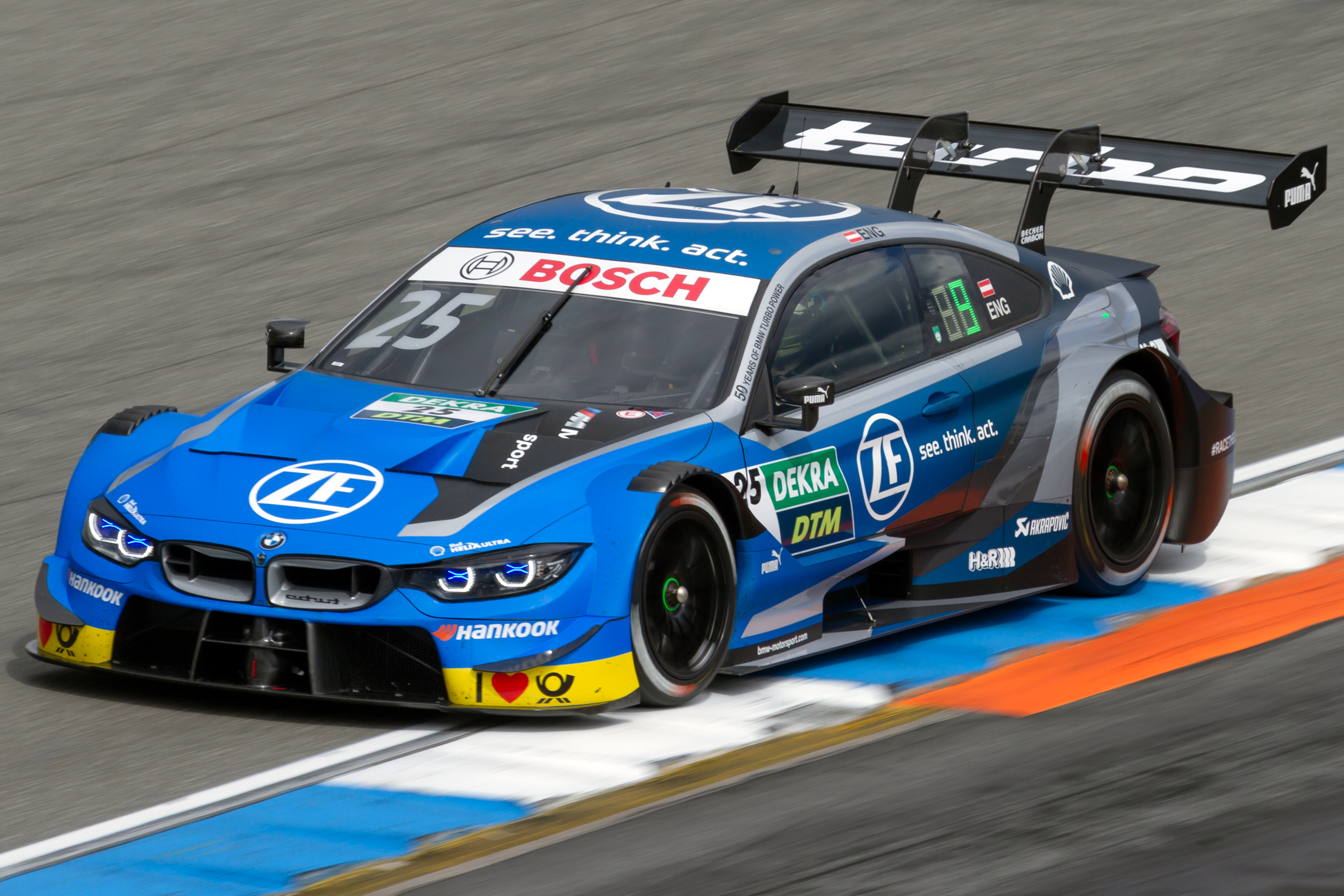 2019 DTM Hockenheimring (May): BMW M4 Turbo DTM of Philipp Eng